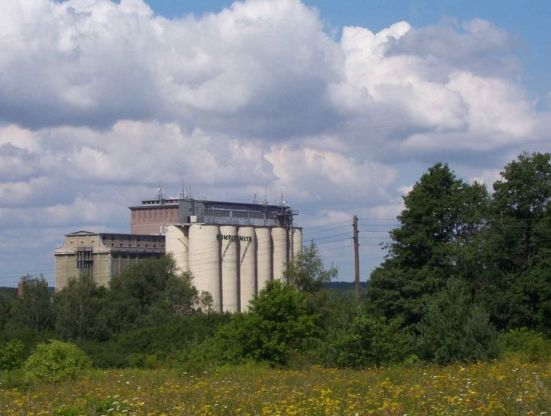 Granary in Czerwonak near Poznań, Poland